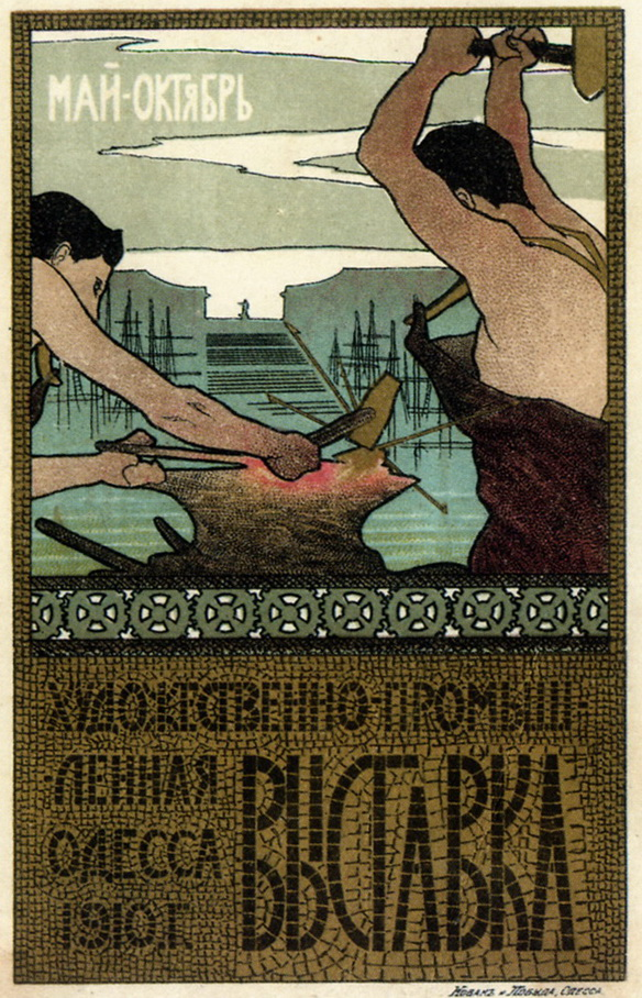 Lithographyc advertysing poster of Odessa Art & Industry Exposition, 1910 (